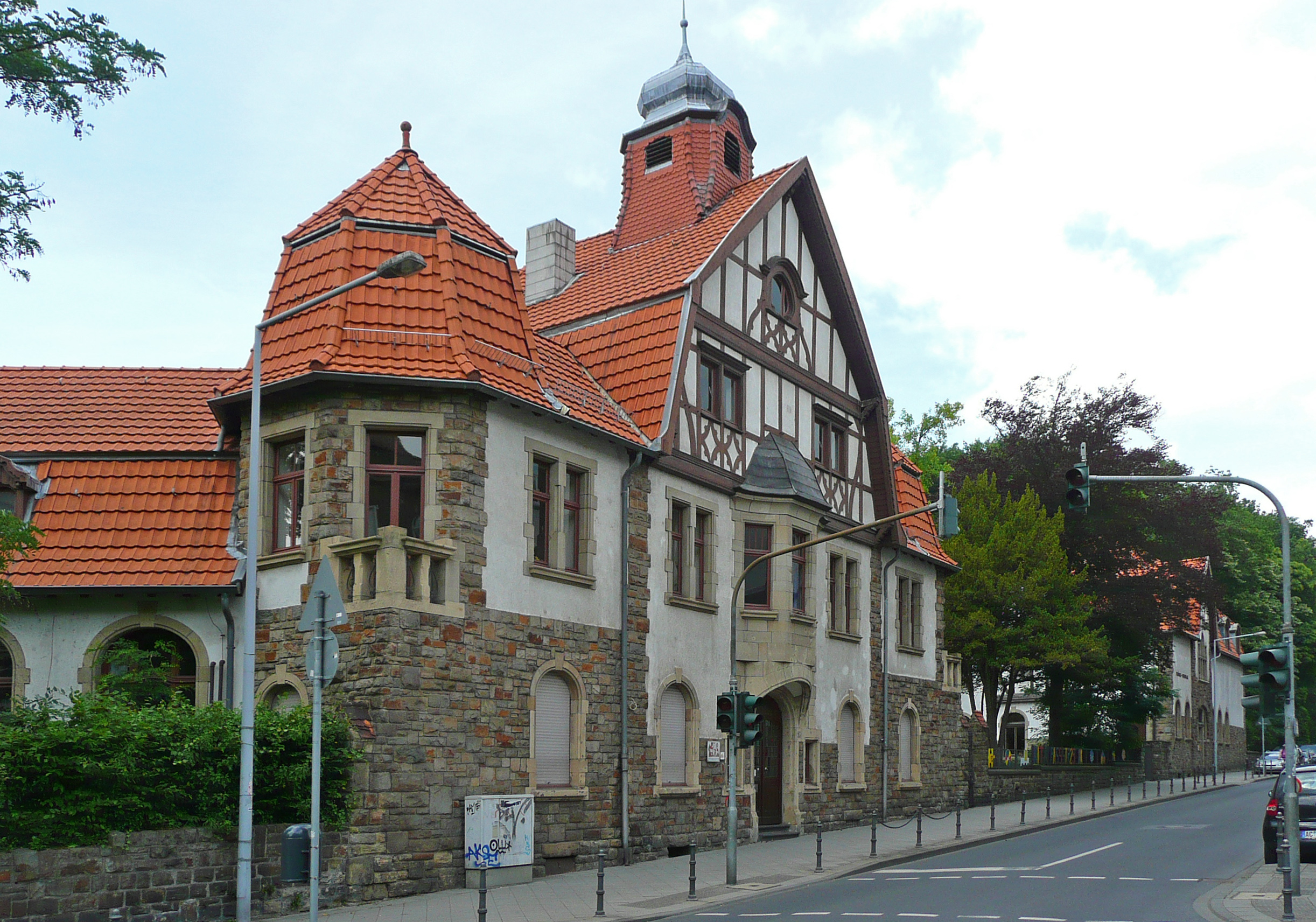 Buildings in Aachen, Passstr.